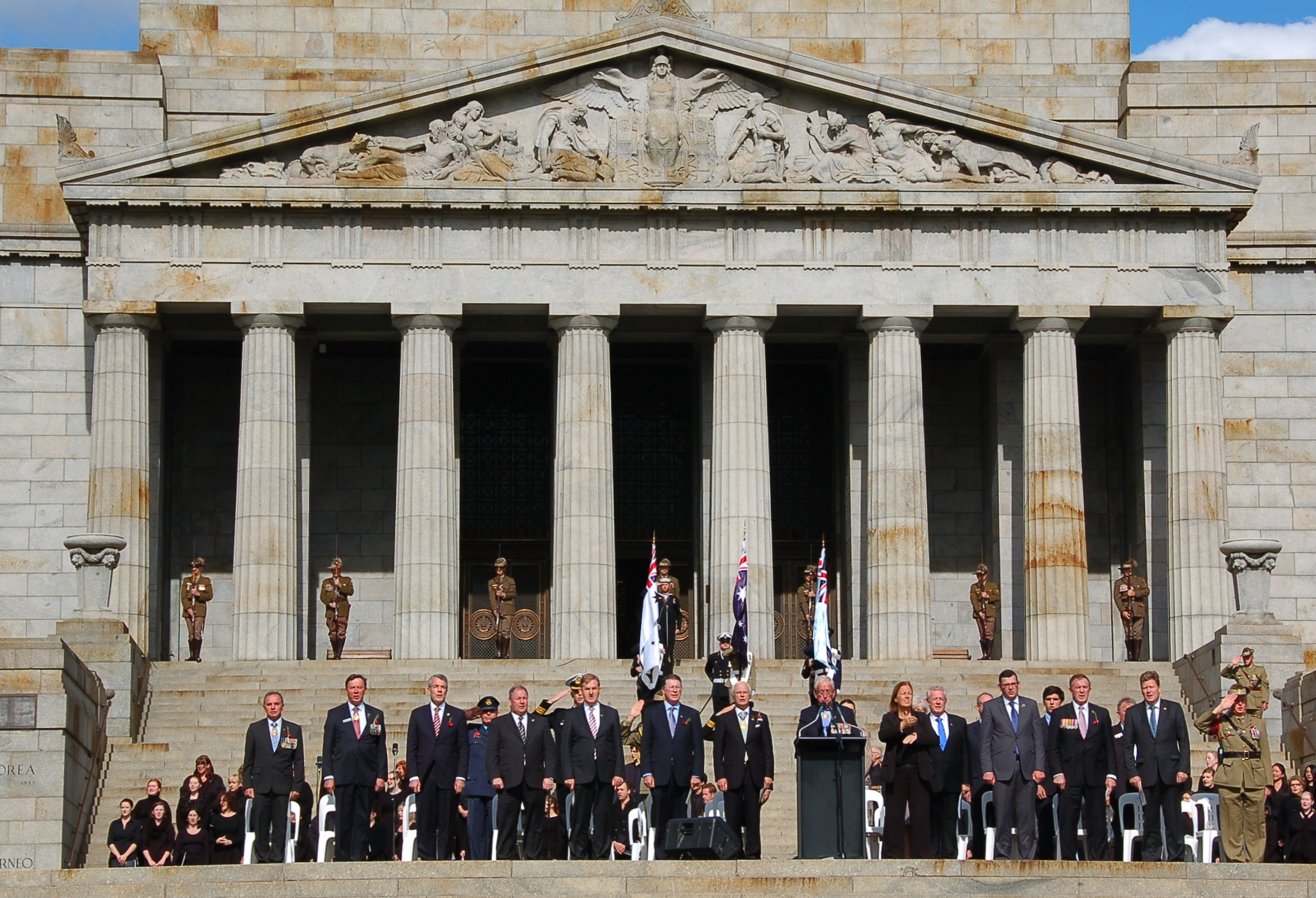 ANZAC Day Ceremony at the Shrine of Remembrance